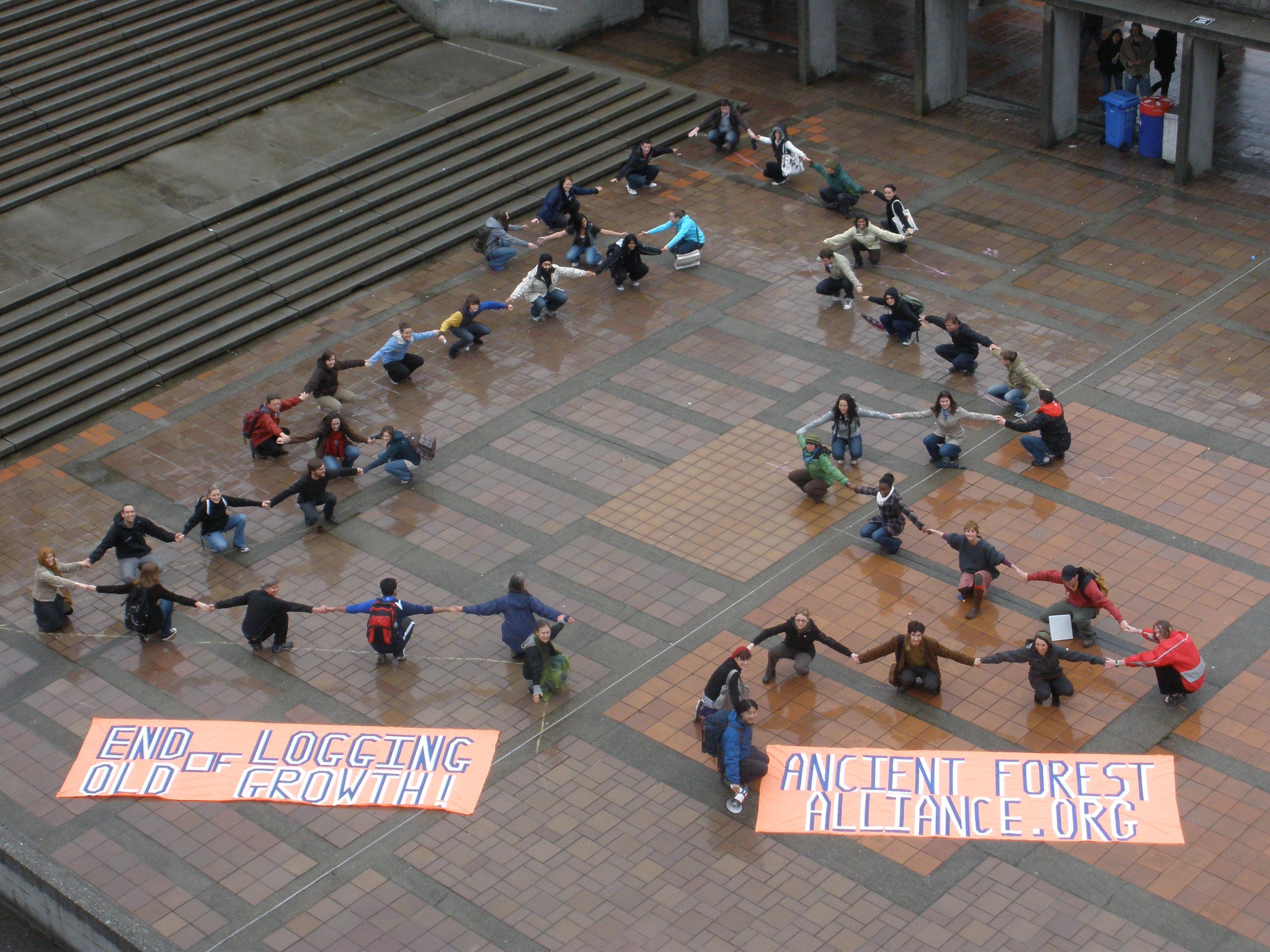 Students and community members participate in an aerial art event at Simon Fraser University on March 25th, 2010, organised by the SFU Ancient Forest Committee as part of a Day of Action for Ancient Forests.